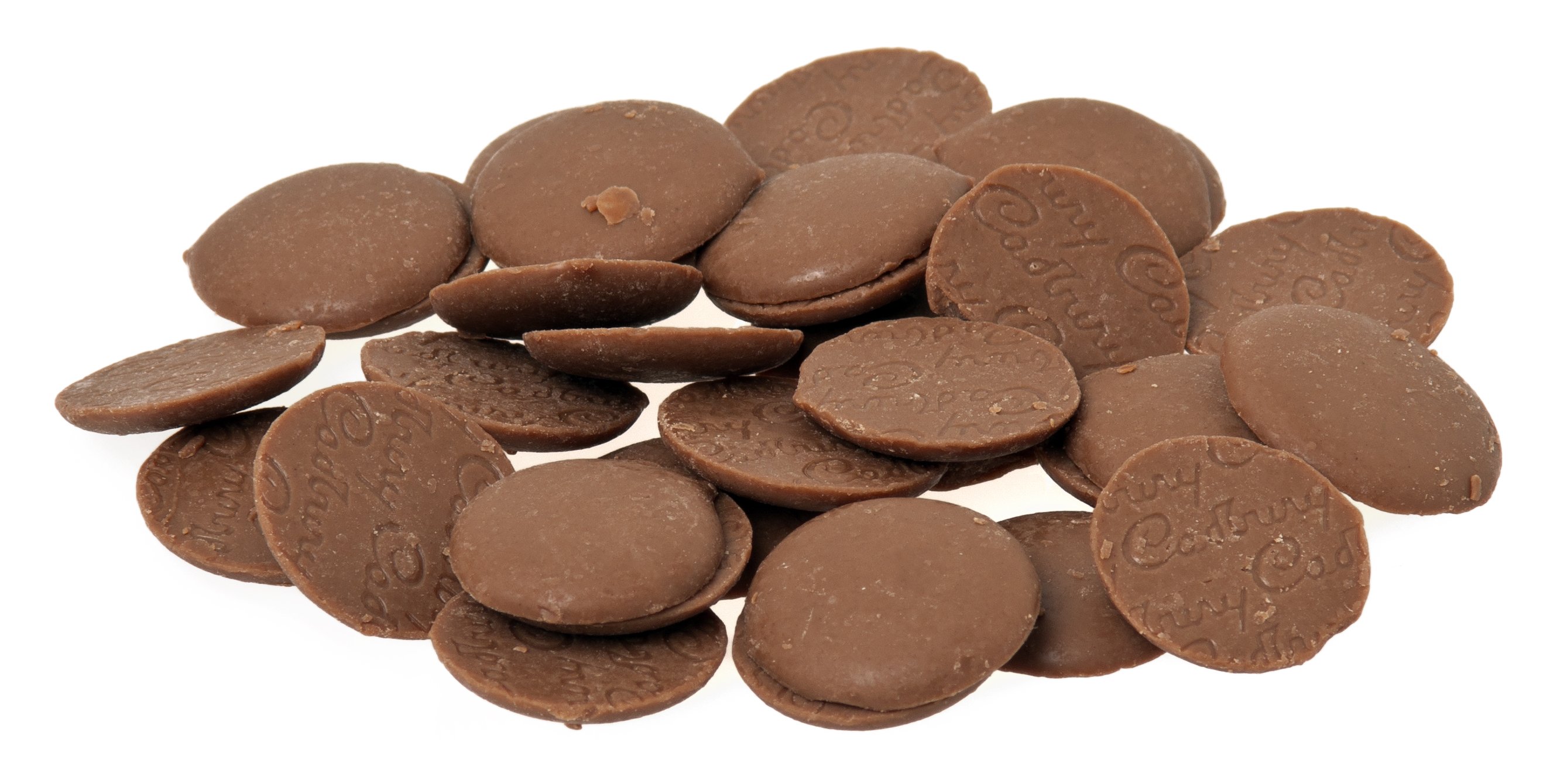 Cadbury Buttons, simple rounded milk chocolates that are available in the United Kingdom.